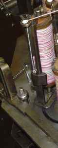 Detail of the Flechtmaschine